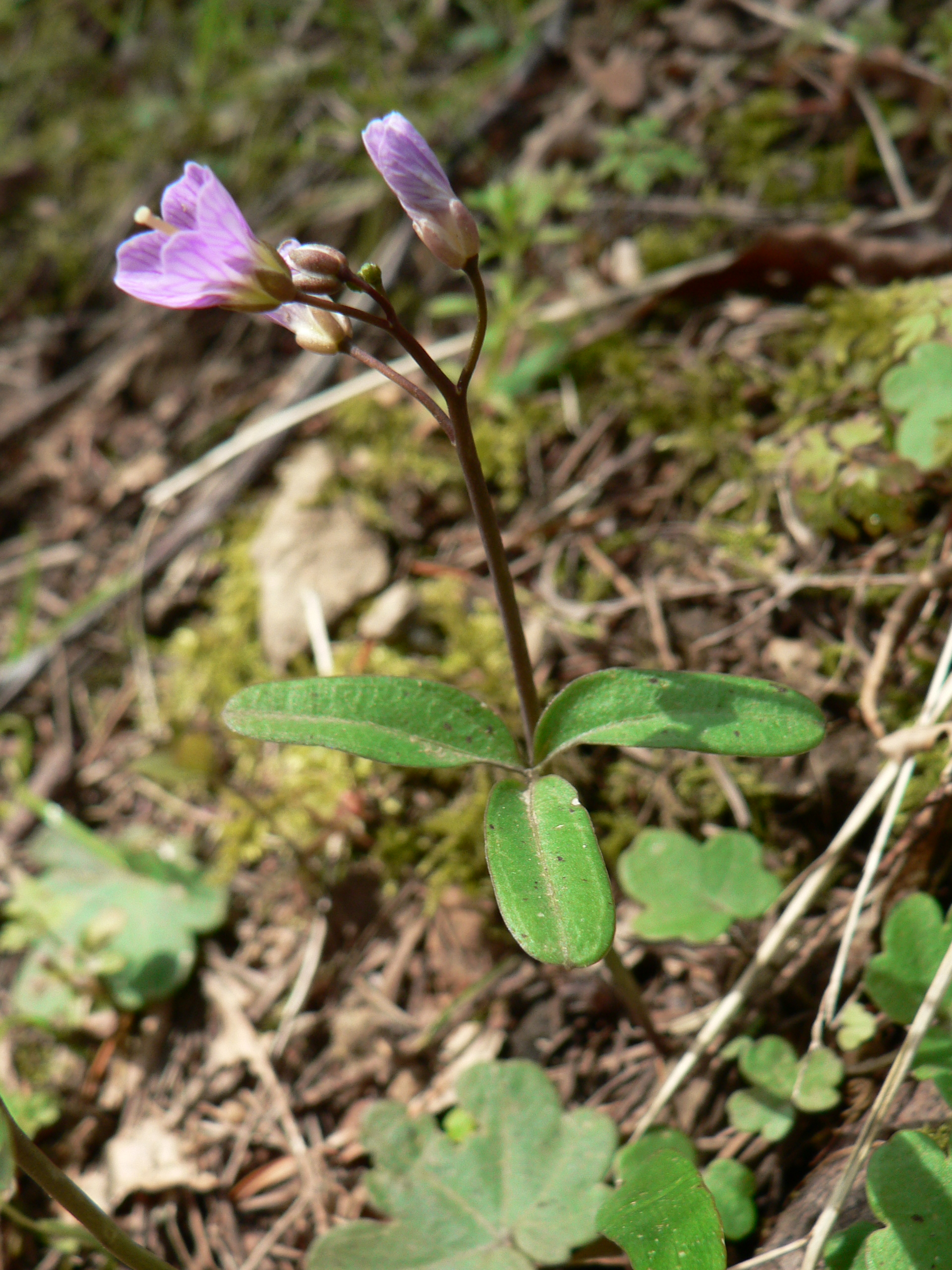 Nuttall's Toothwort, Slender Toothwort